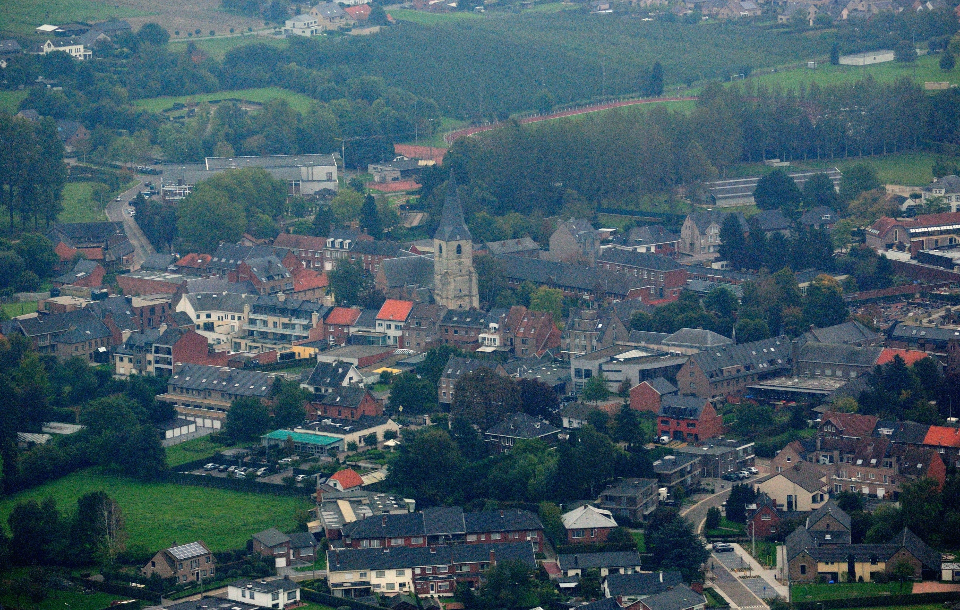 Aerial view of central Alken, Belgium. Near the centre of the picture is Saint Aldegonde's church. Nikon D60 f=105mm f/7.1 at 1/800s ISO 800. Processed using Nikon ViewNX 1.5.2 and GIMP 2.6.6.